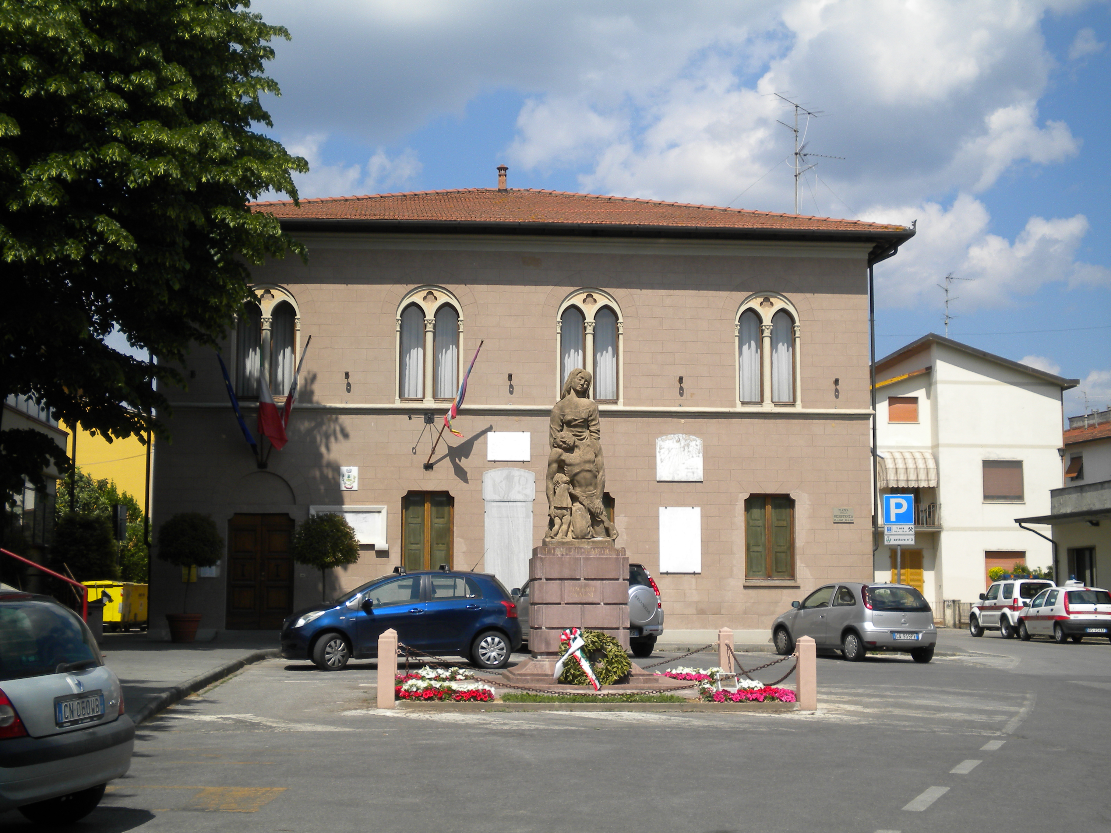 town hall